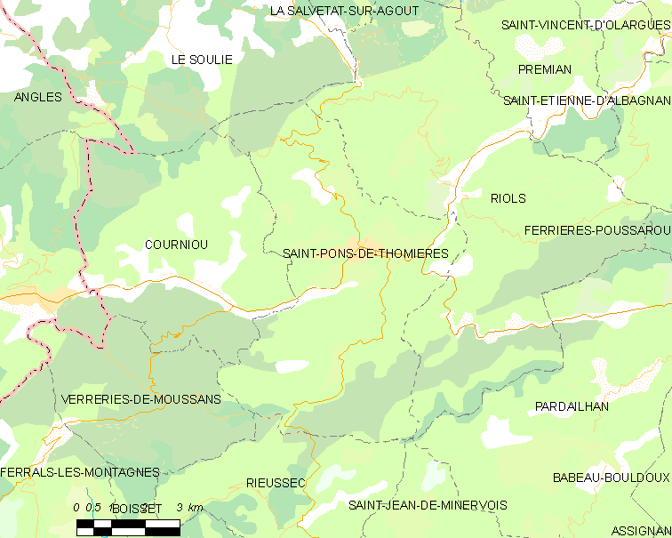 Map commune FR insee code 34284.png - Saint-Pons-de-Thomières